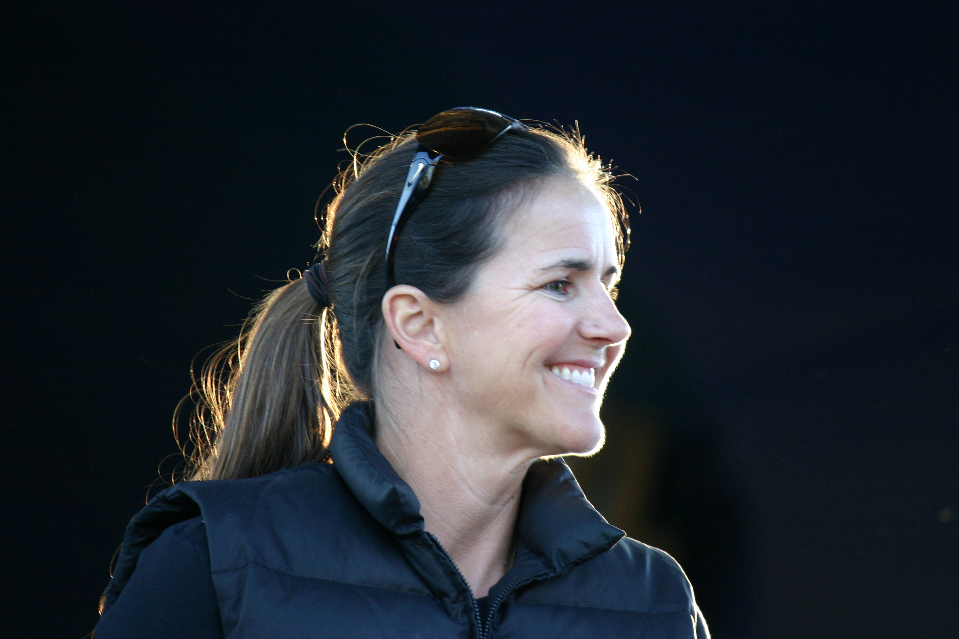 Brandi Chastain at Inside SportsCenter on the Sorcerer Hat Stage at Disney's Hollywood Studios during ESPN the Weekend, February 26, 2010